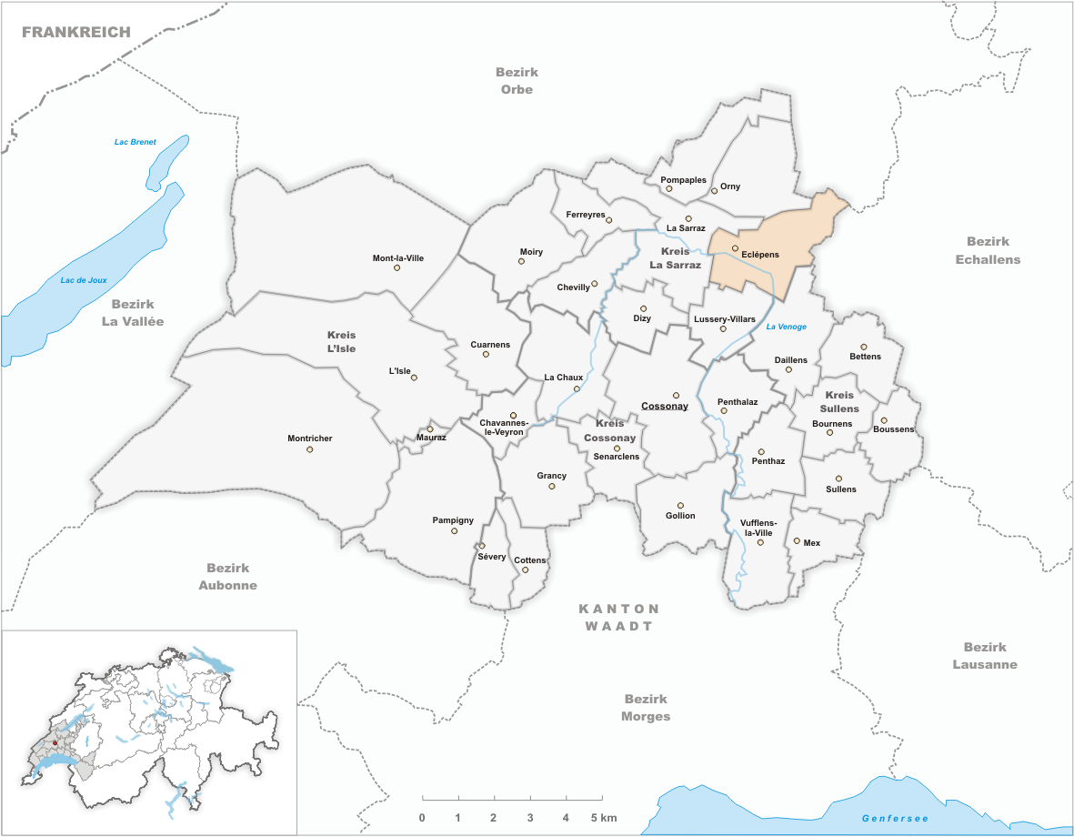 Municipality Eclépens